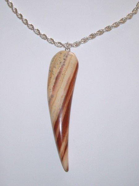 Caymanite necklace on silver chain